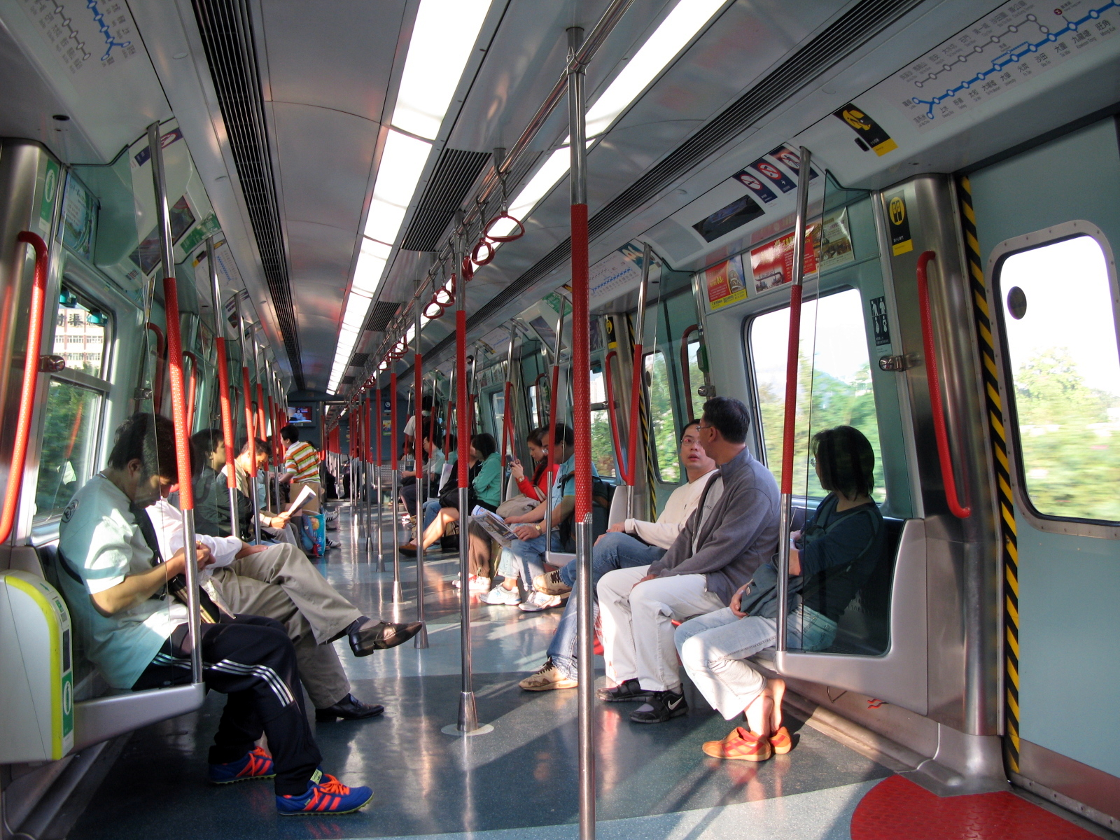 HK MTR East Rail Metro Cammell EMUs Interior